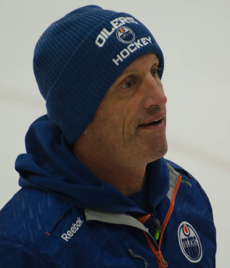 Keith Acton at an Edmonton Oilers practice, Sept. 27, 2014